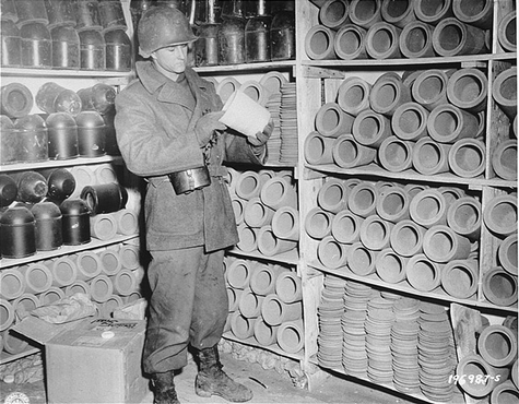 An American soldier in Natzweiler-Struthof examines an urn used to bury the ashes of cremated prisoners. [Photograph #02016]